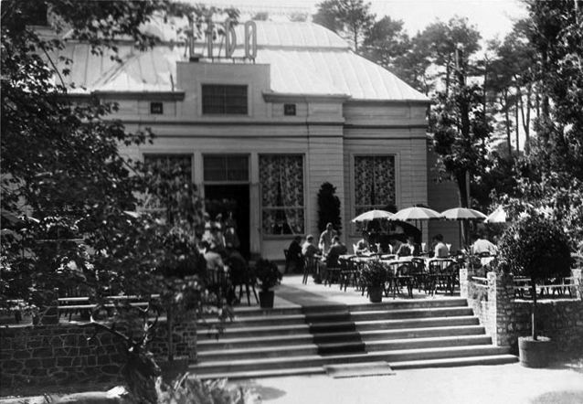 Restaurant Lido. Architect Sergey Antonov. Latvia.